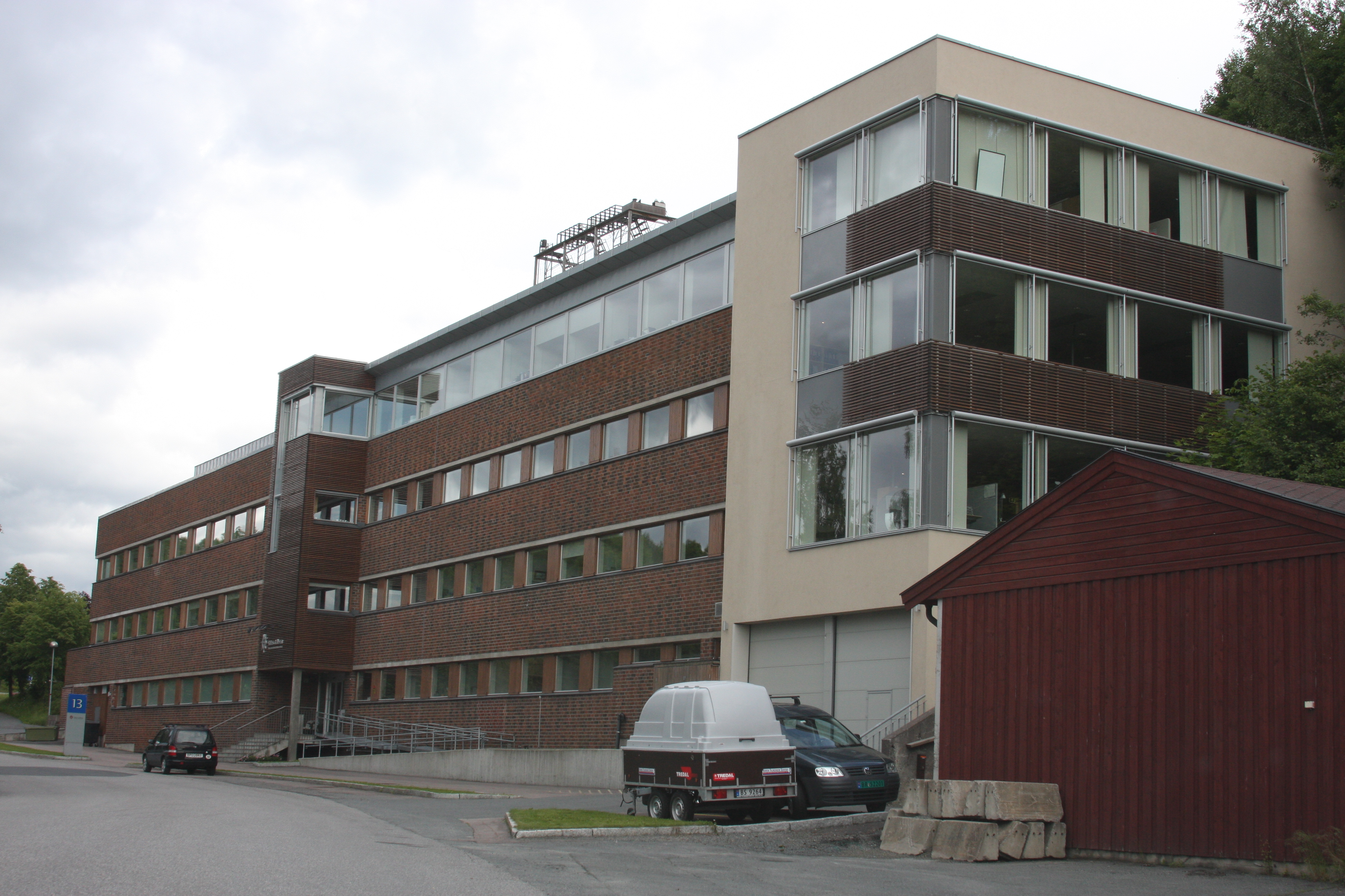 Norwegian Radiation Authority, Oslo/Baerum